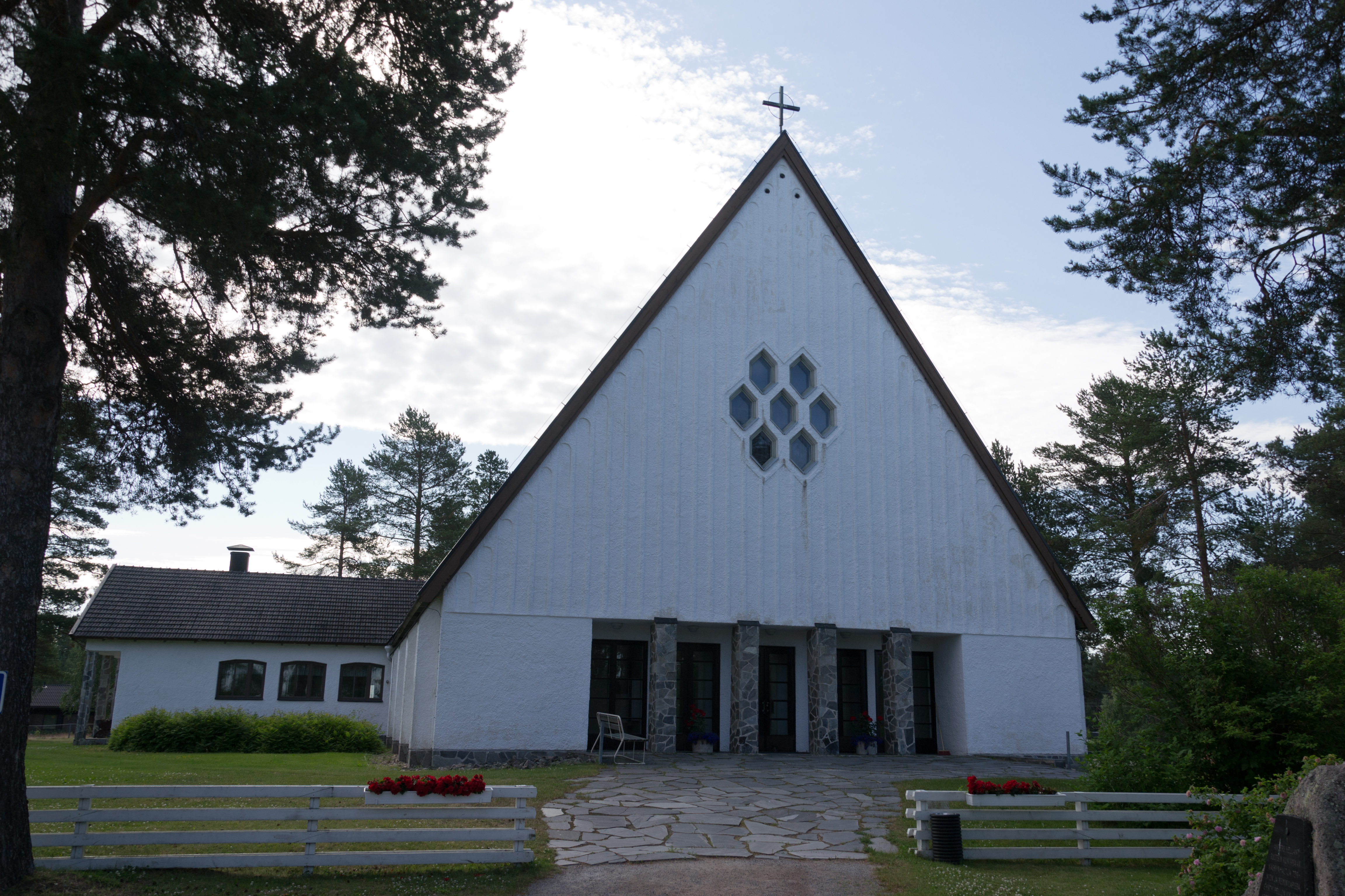 Churh of Pello